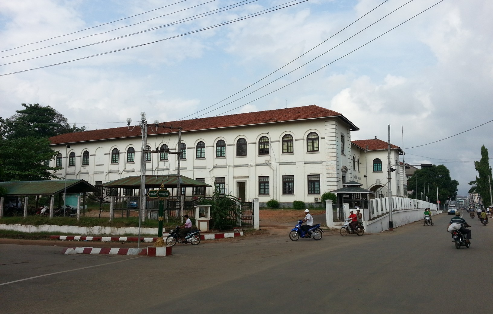 Dawei, Tennasserim Division